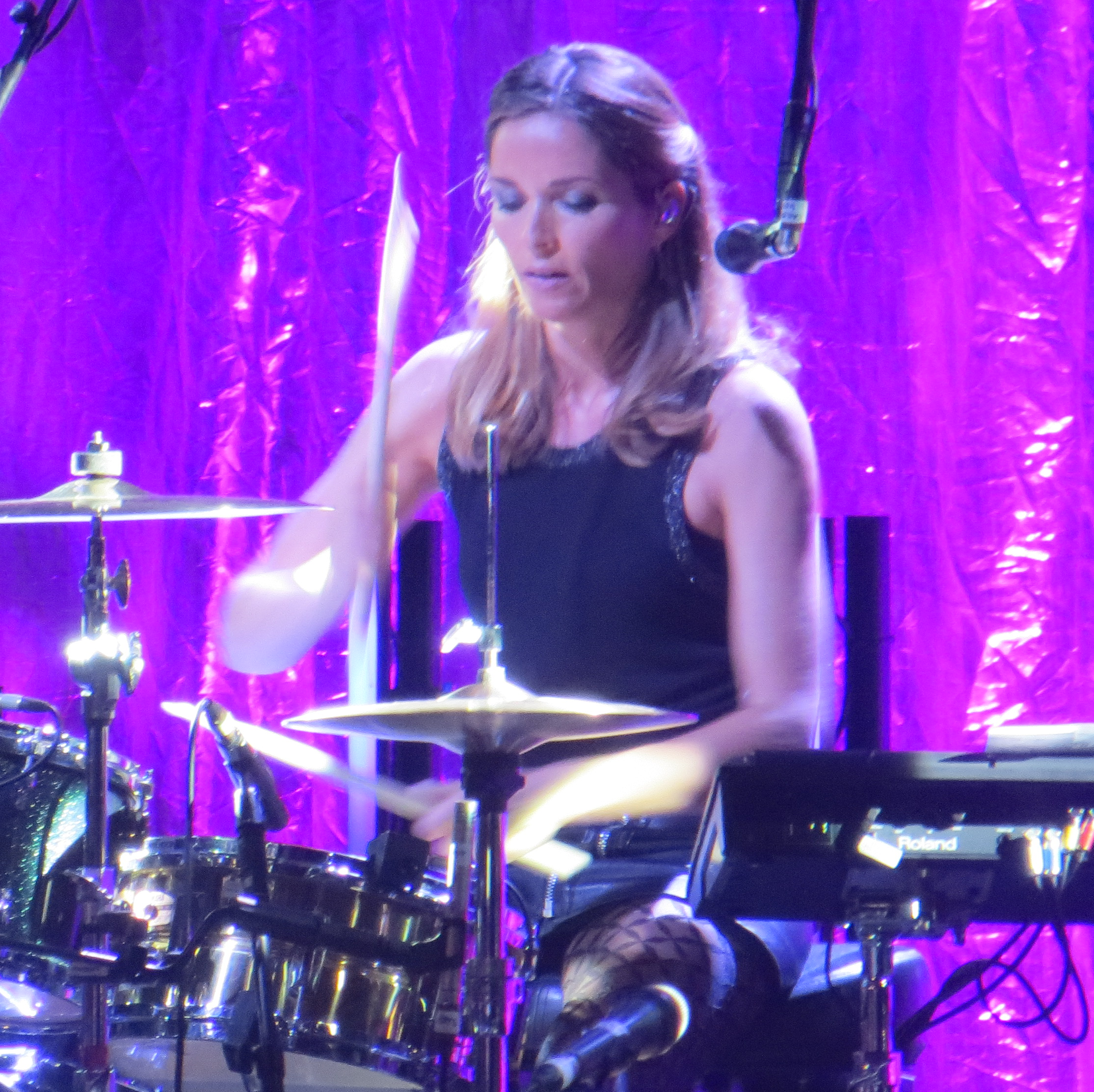 Caroline Corr in Vienna (Stadthalle, 2016)